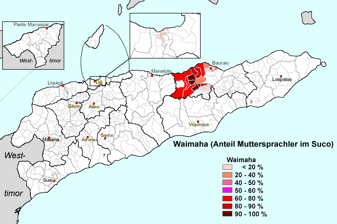 Percentage of people using Waimaha as mother tongue in sucos of East Timor (Timor-Leste), according census 2010